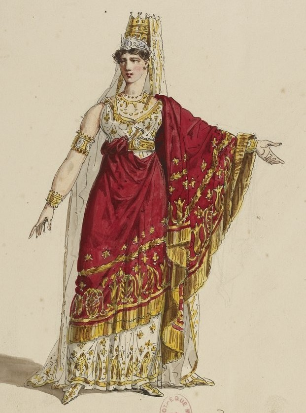 Rossini - Semiramide - Paris 1825 - Hippolyte Lecomte - Semiramis 1er Costume (Mdme Fodor)